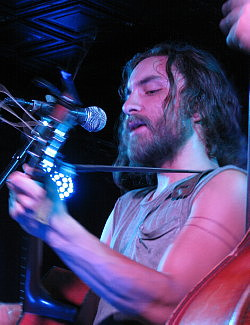 Christian Cardiello of the Blind Owl Band playing at The Saint in Asbury Park, NJ, on July 18, 2013. Photo by LHCollins.